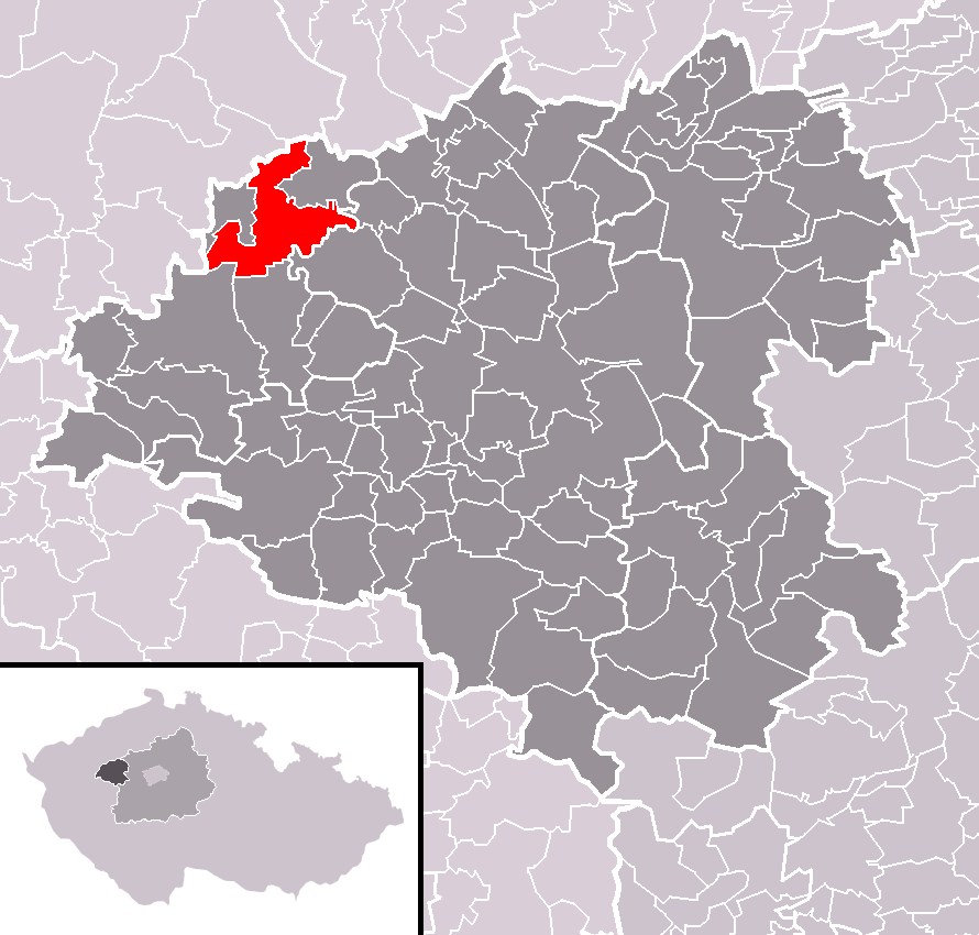 Location of Hořovičky municipality within Rakovník District and (identical) administrative area of Rakovník as a Municipality with Extended Competence.